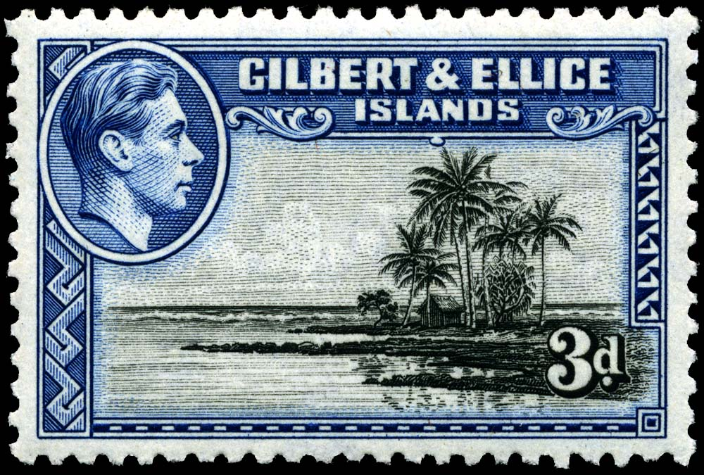 Gilbert and Ellice Islands 3p stamp of 1939